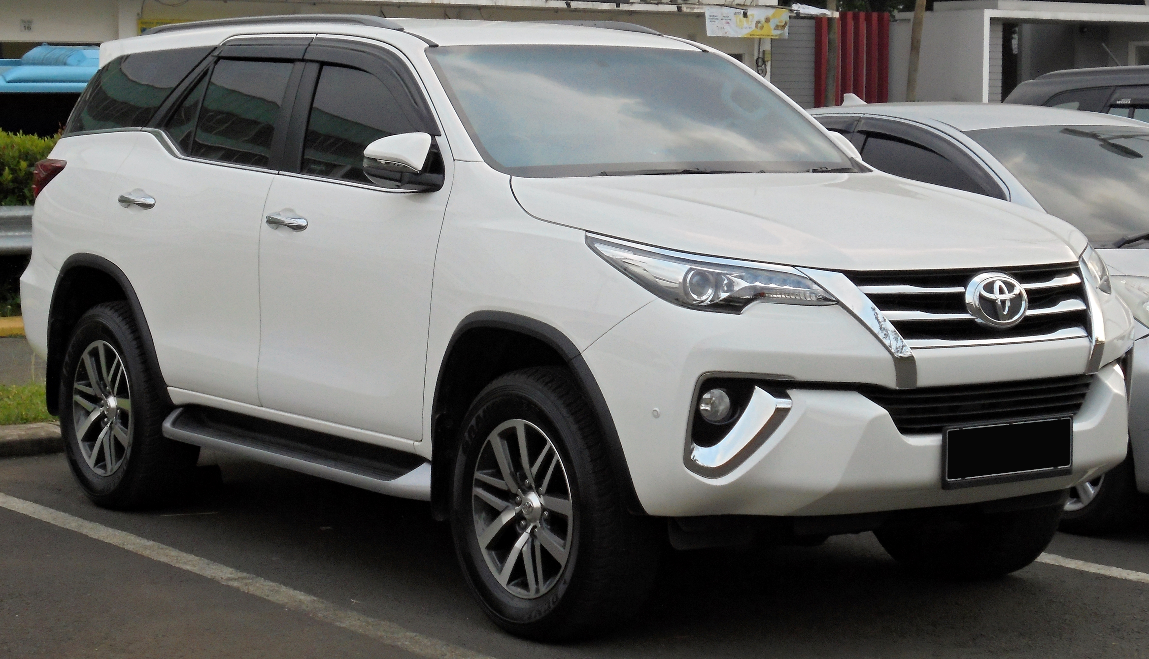 2018 Toyota Fortuner 2.4 VRZ 4x2 wagon (GUN165R) photographed in South Tangerang, Banten, Indonesia.